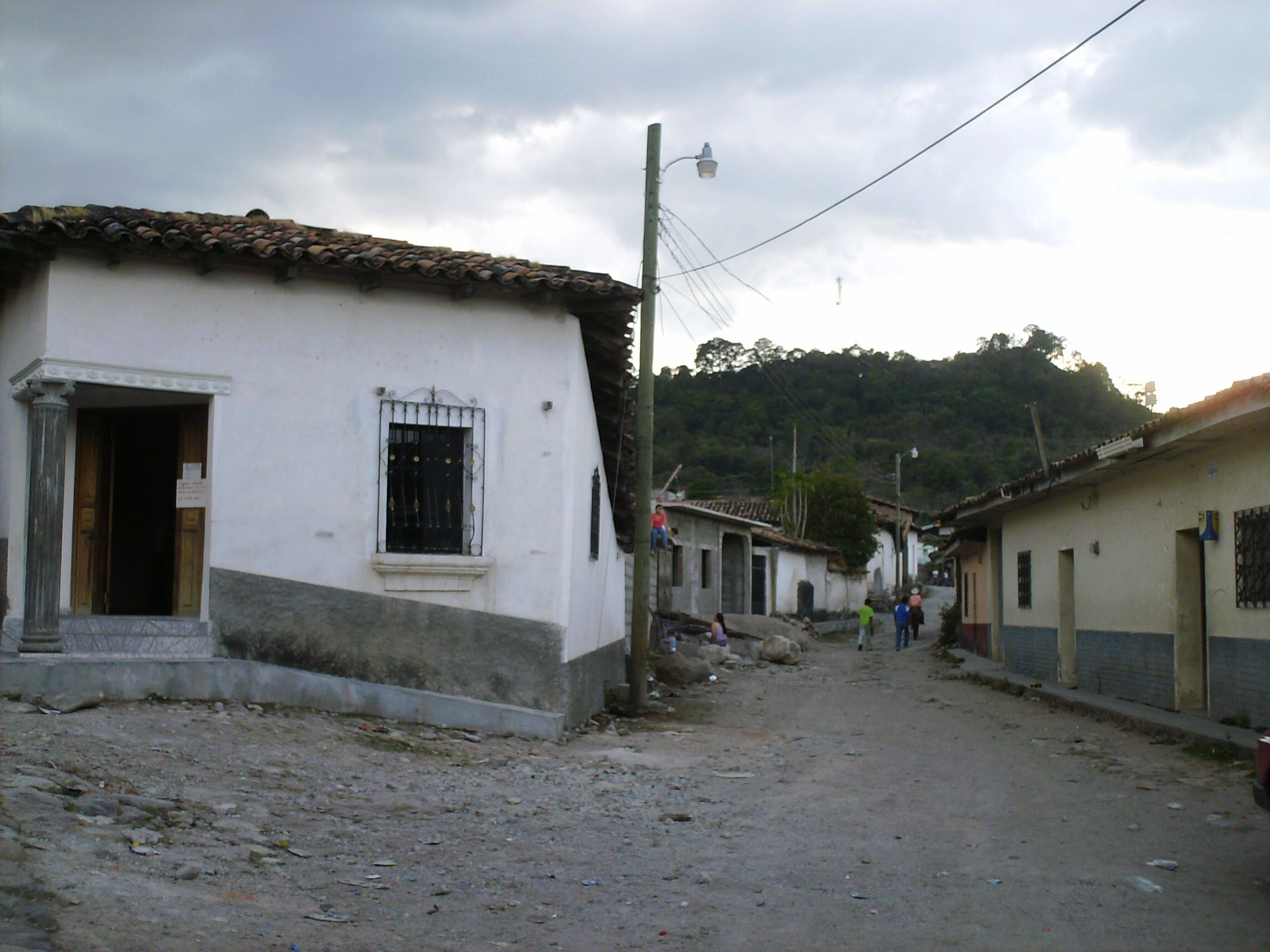 Guarita, municipality in the Honduran department of Lempira.